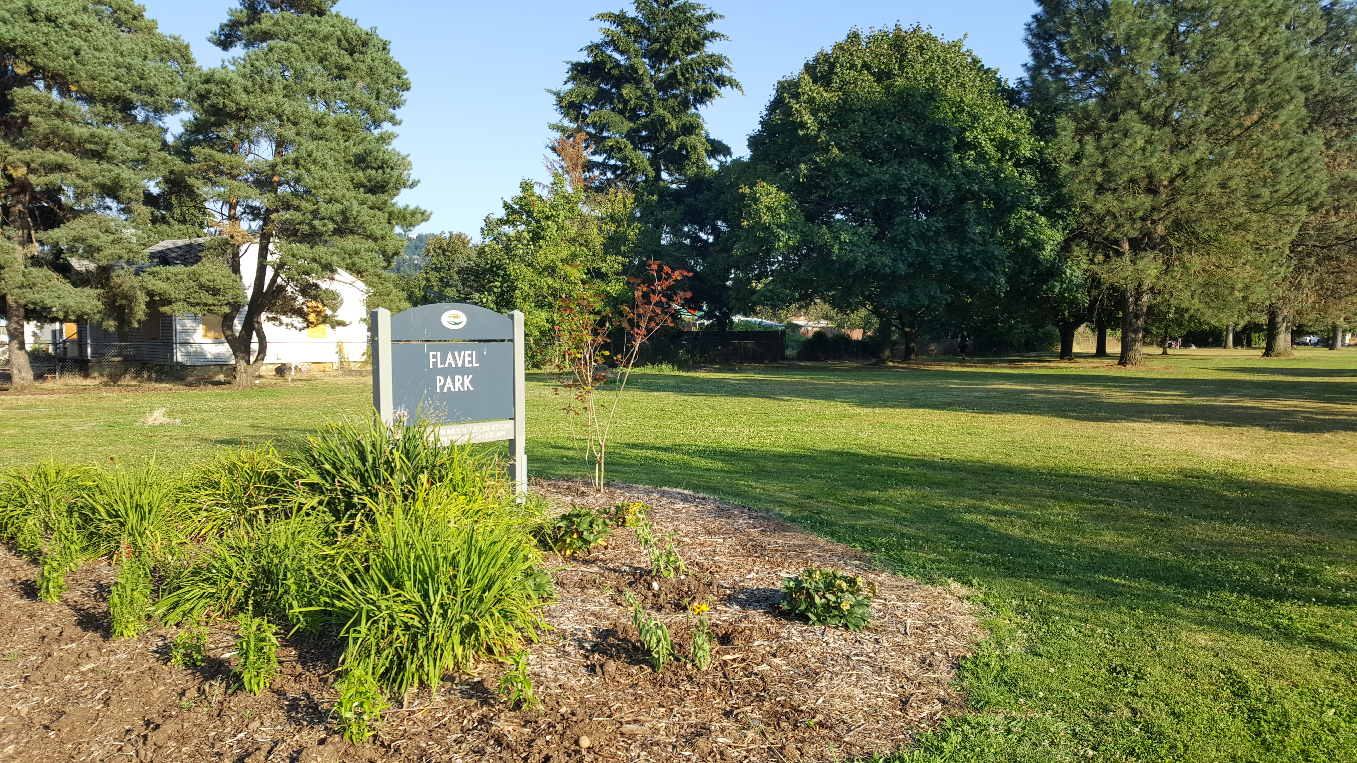 Southeast Portland, Oregon, July 2020